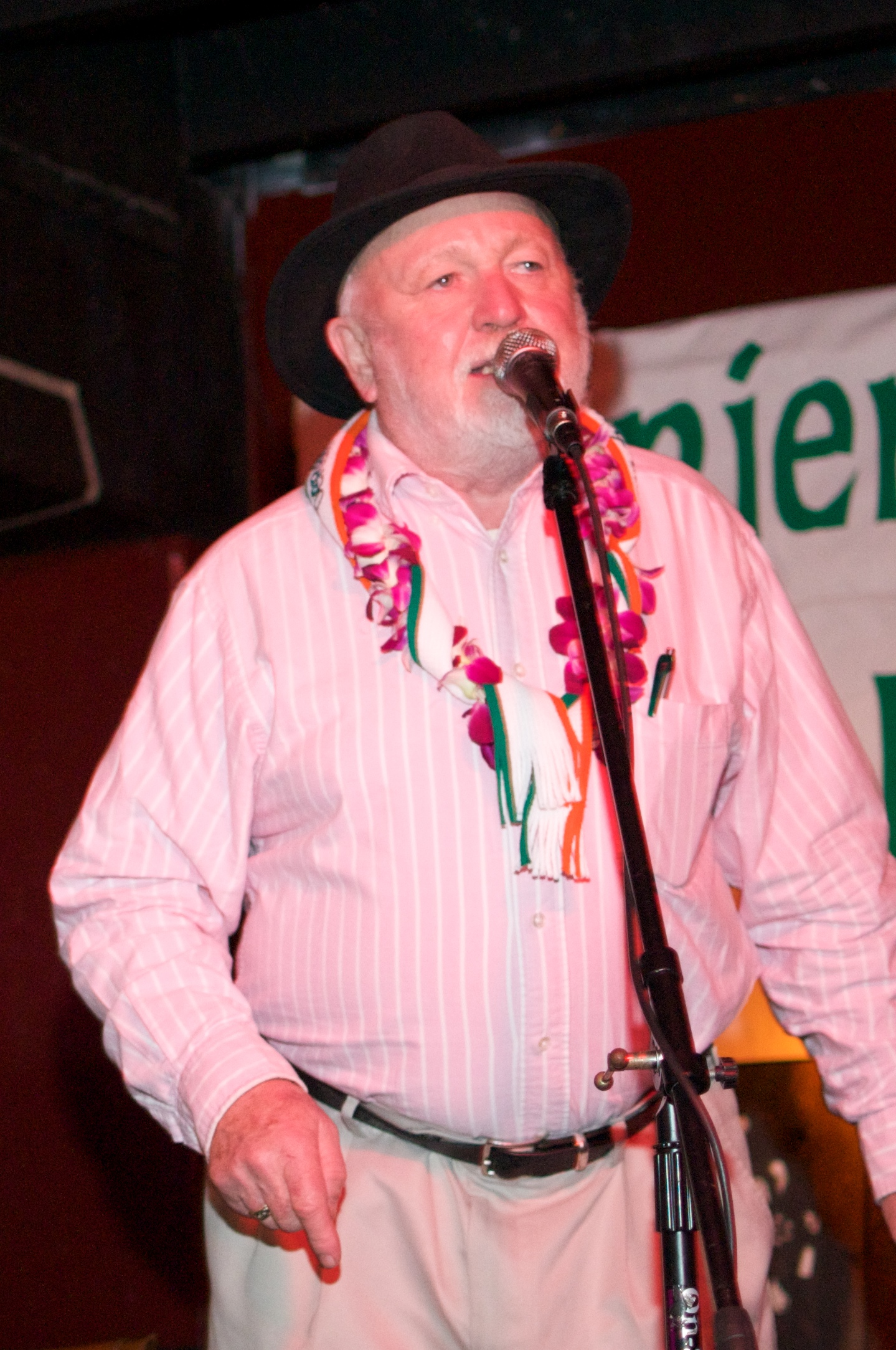 Irish Folk Music Artist Derek Warfield performs live in Honolulu